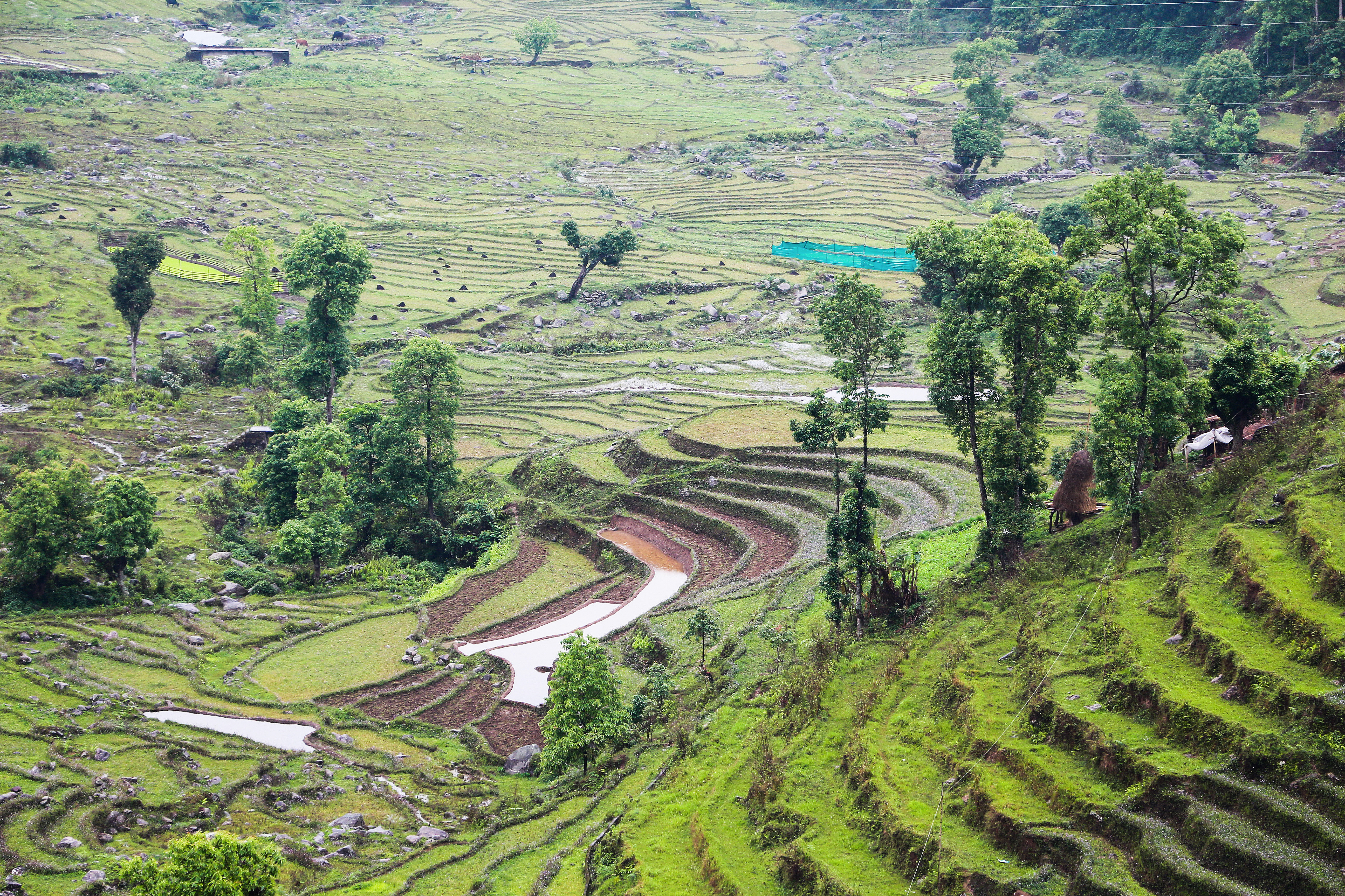 Landscape of Sikkim, India